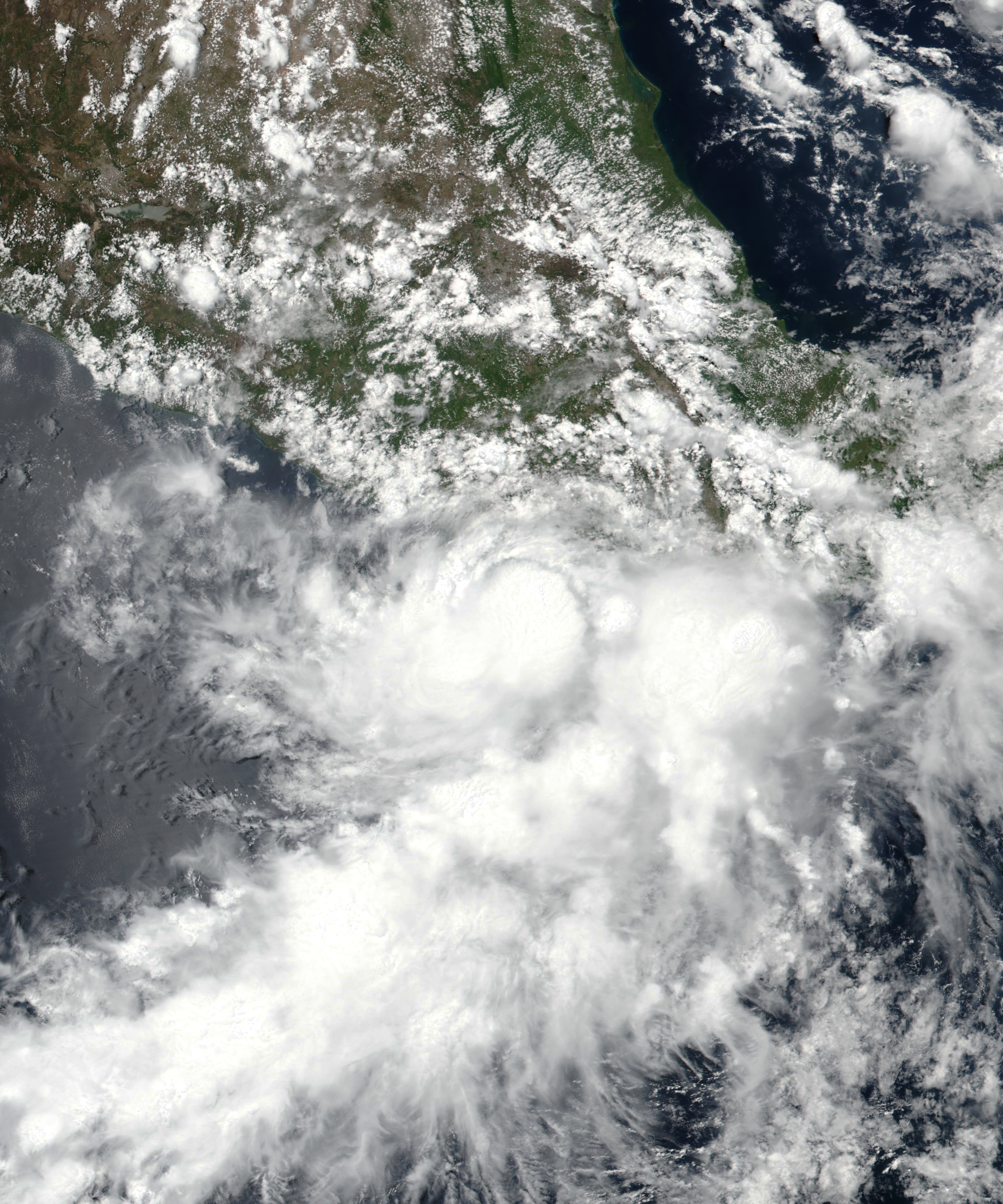 Suomi NPP visible satellite imagery of Tropical Storm Carlotta at 20:01Z on June 16, 2018.